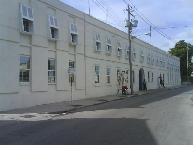 The Central Police station, Bridgetown. (District A)